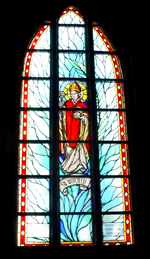 Adalbert of Prague - window in church, Darłowo, Poland